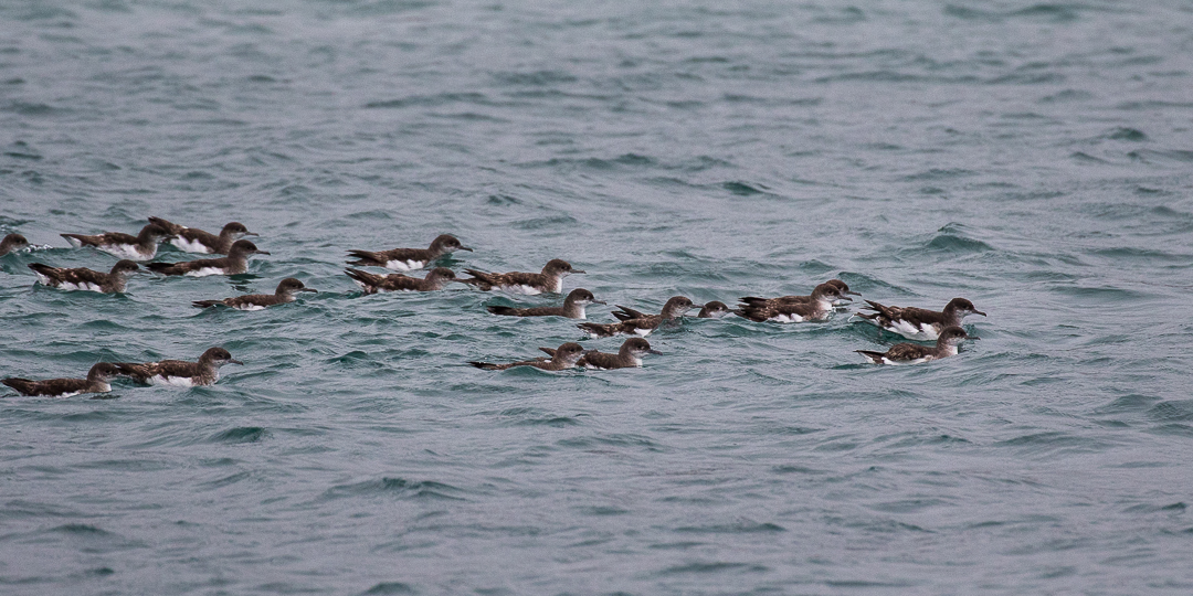 Fluttering Shearwater - Otago - New Zealand_FJ0A8484